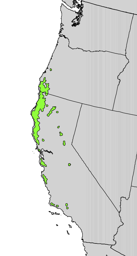 Range map of Notholithocarpus densiflorus (Syn:Lithocarpus densiflorus) — Tanbark oak.